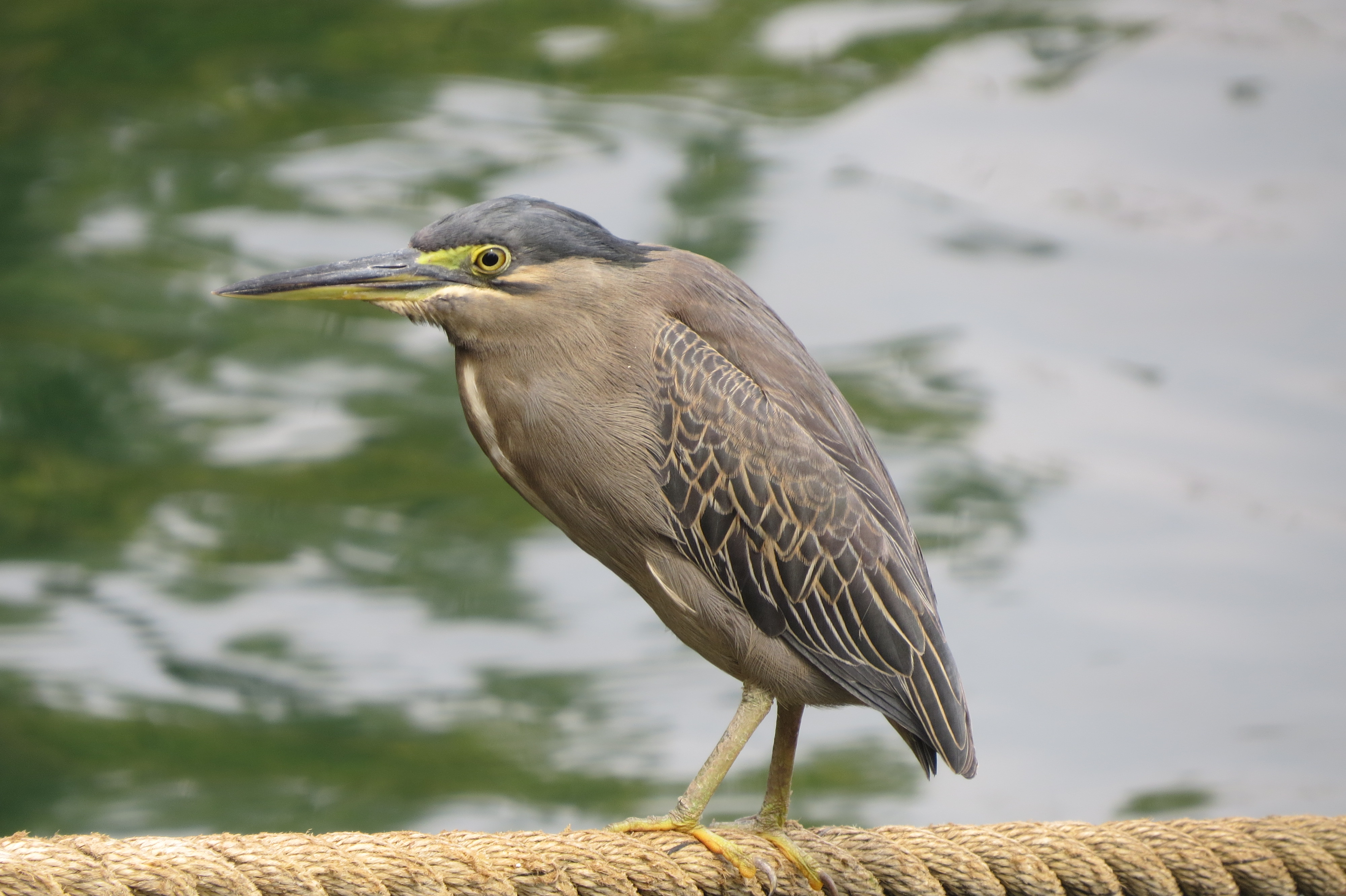 waiting for the fish in the back waters of Tarkarli